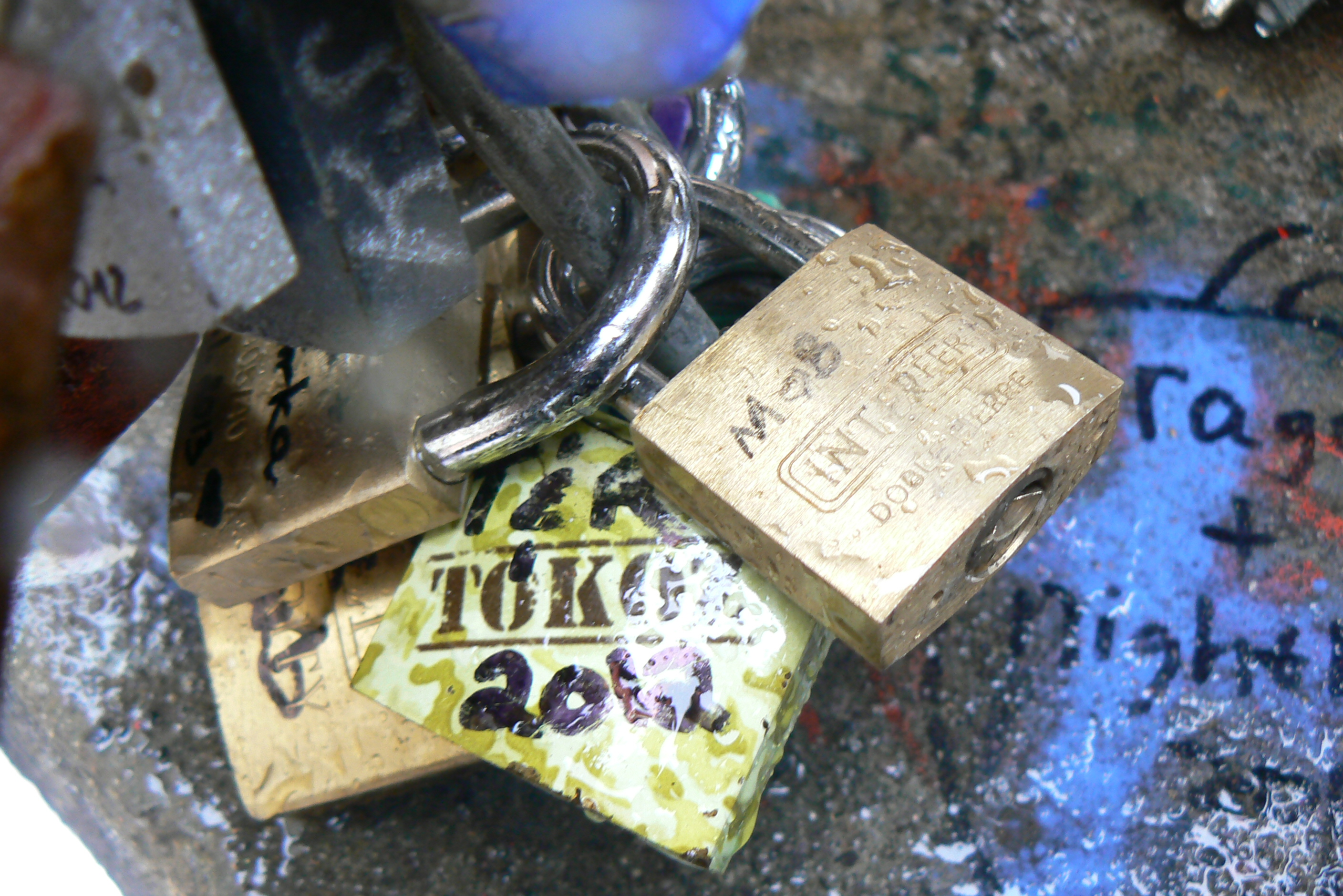 Love lock - army style